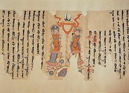 Sogdian text from a Manichaean creditor Letter from around 9th to 13th century.Found in 1981 in Bezeklik Thousand Buddha Caves at Turpan, Xinjiang.